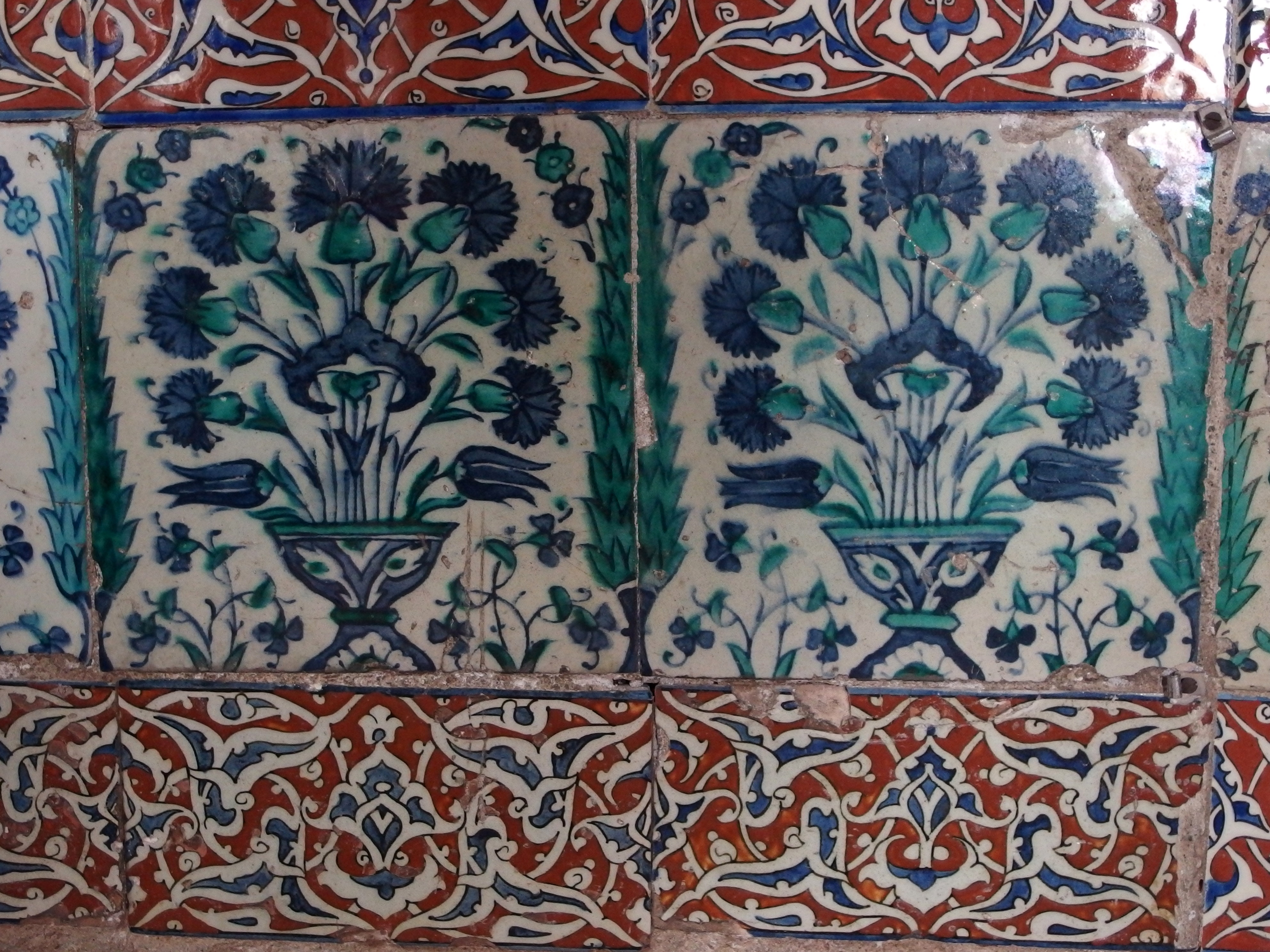 2013-12-04 in Istanbul.